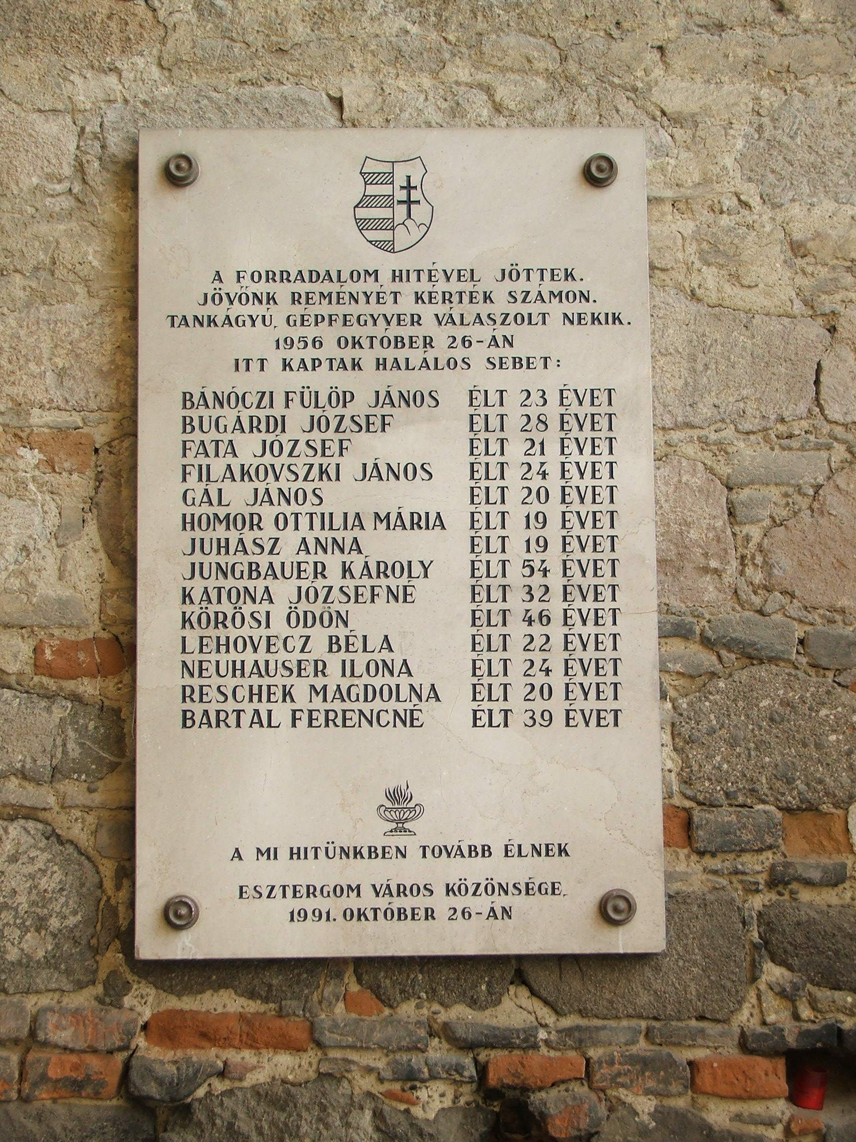 Names of victims of the 1956 revolution in Hungary in Esztergom.